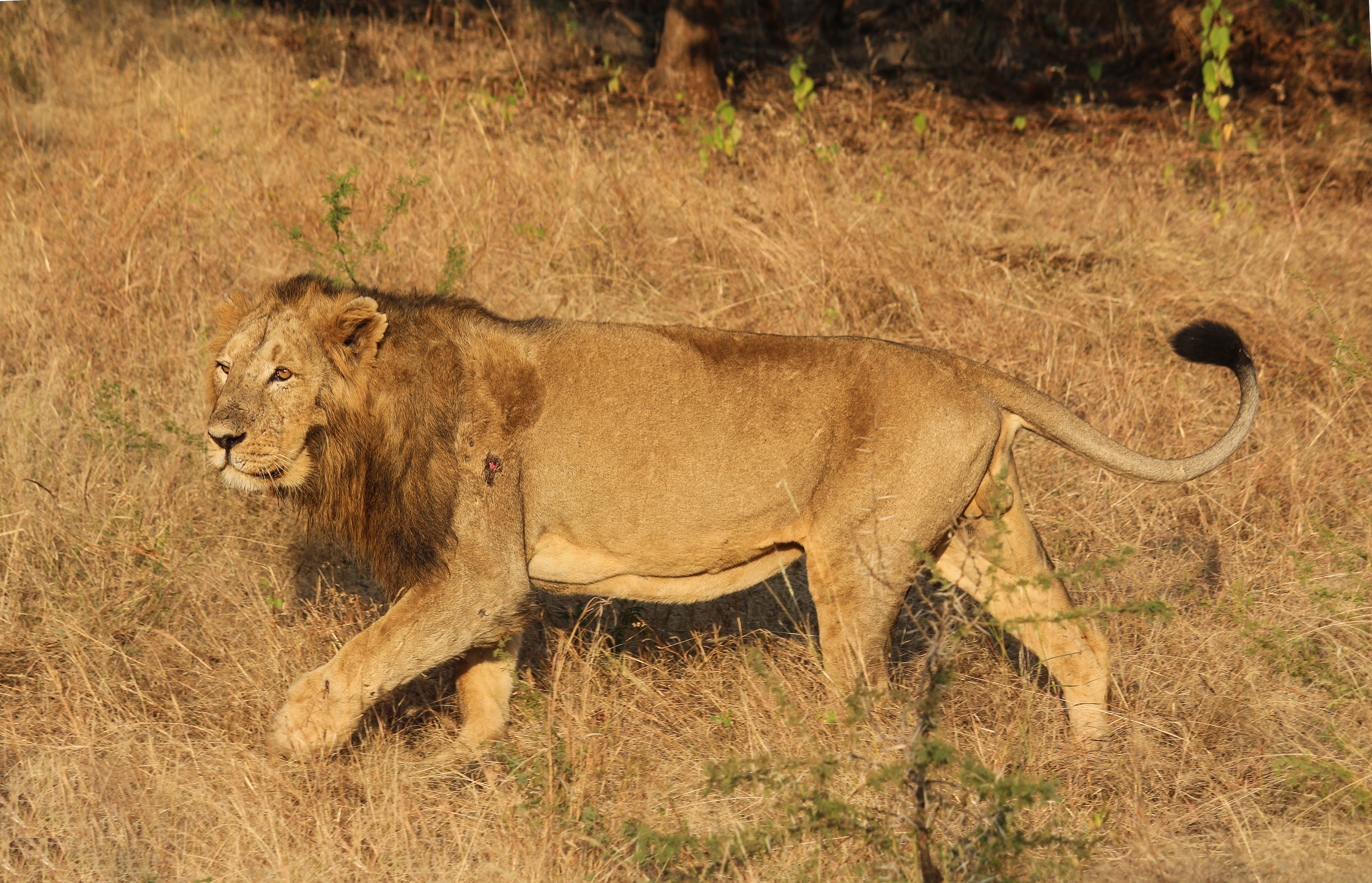 Asiatic lion (Panthera leo persica) in Gir Forest National Park, India